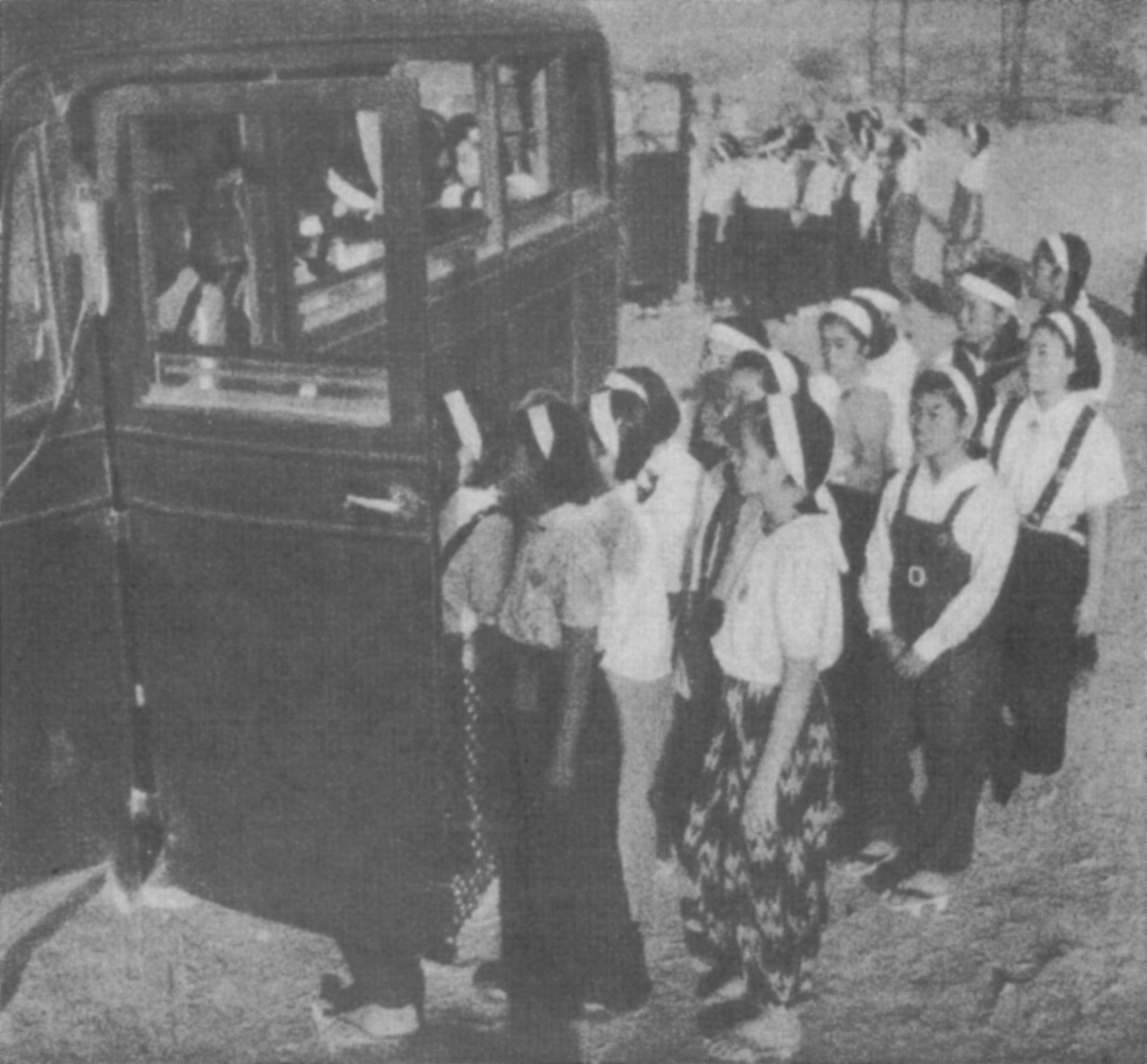 Women's Volunteer Corps leaving dormitory for the Chinkai 51st Naval Air Arsenal